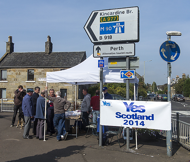 Yes campaigning at Kinross